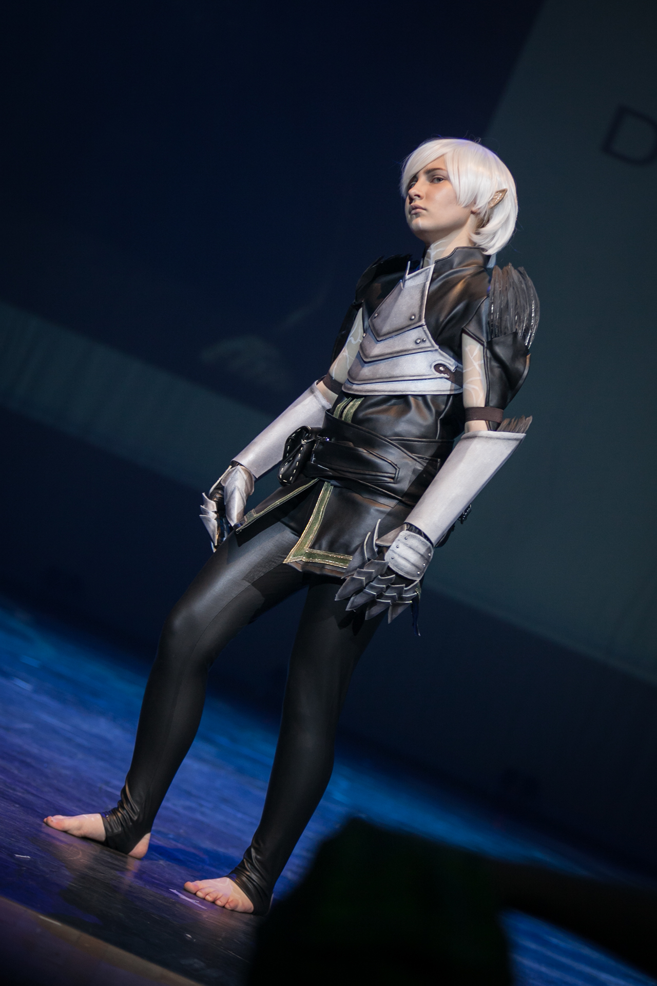 Cosplay of Fenris from Dragon Age 2.